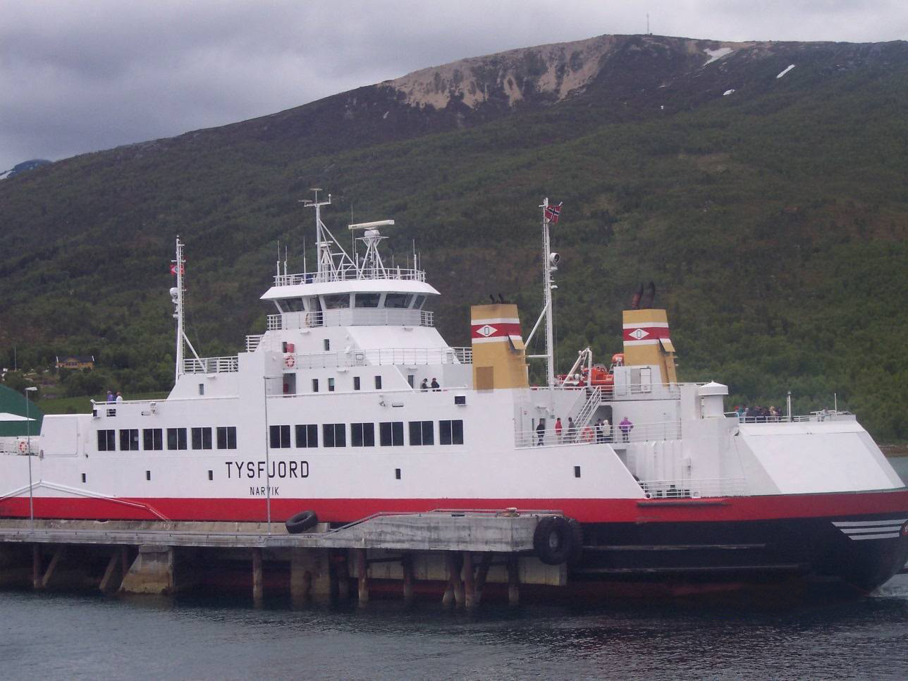 the ferry serving Bognes and Lødingen, Norway.